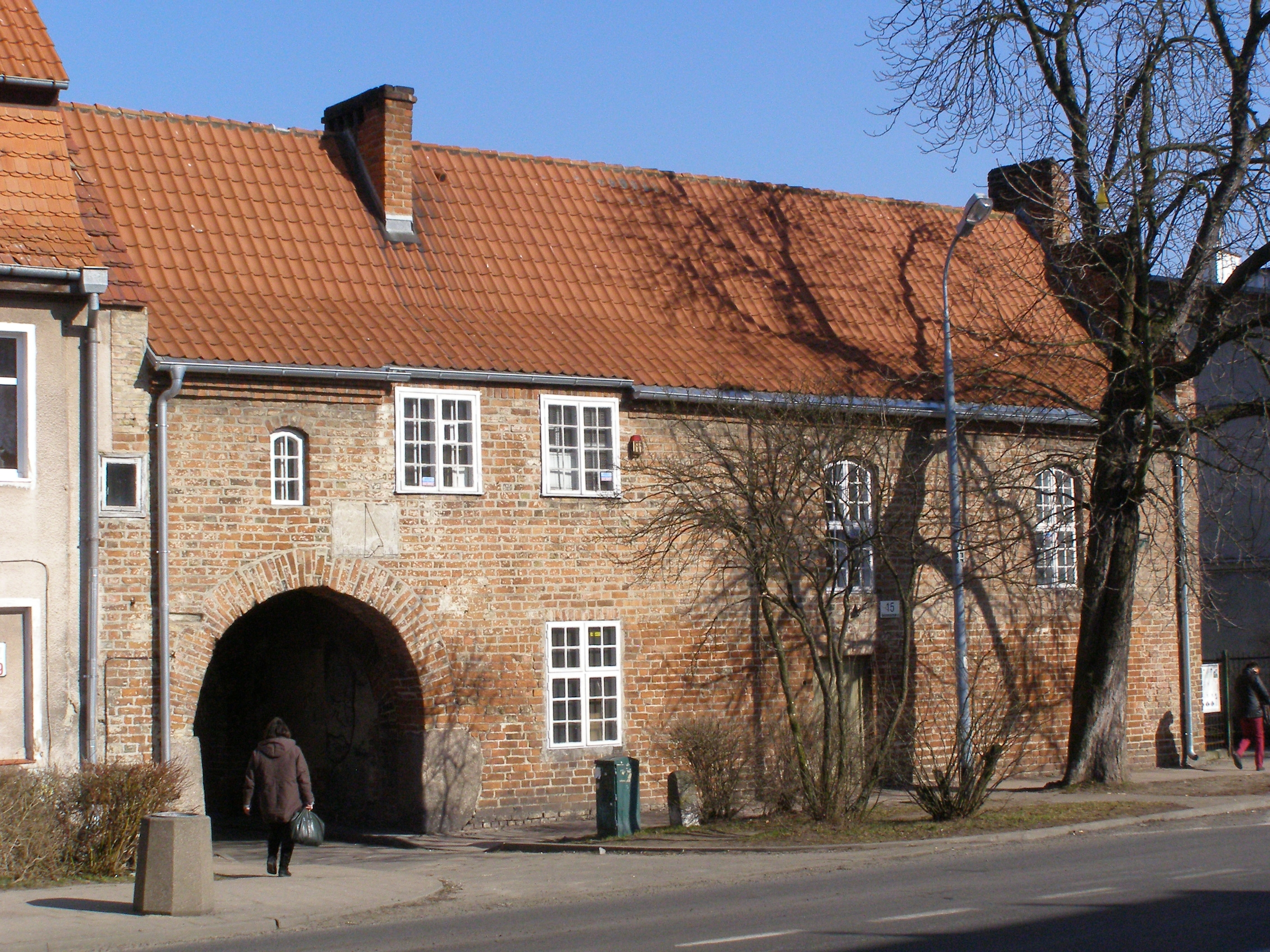 Gdańsk - The Plague House.